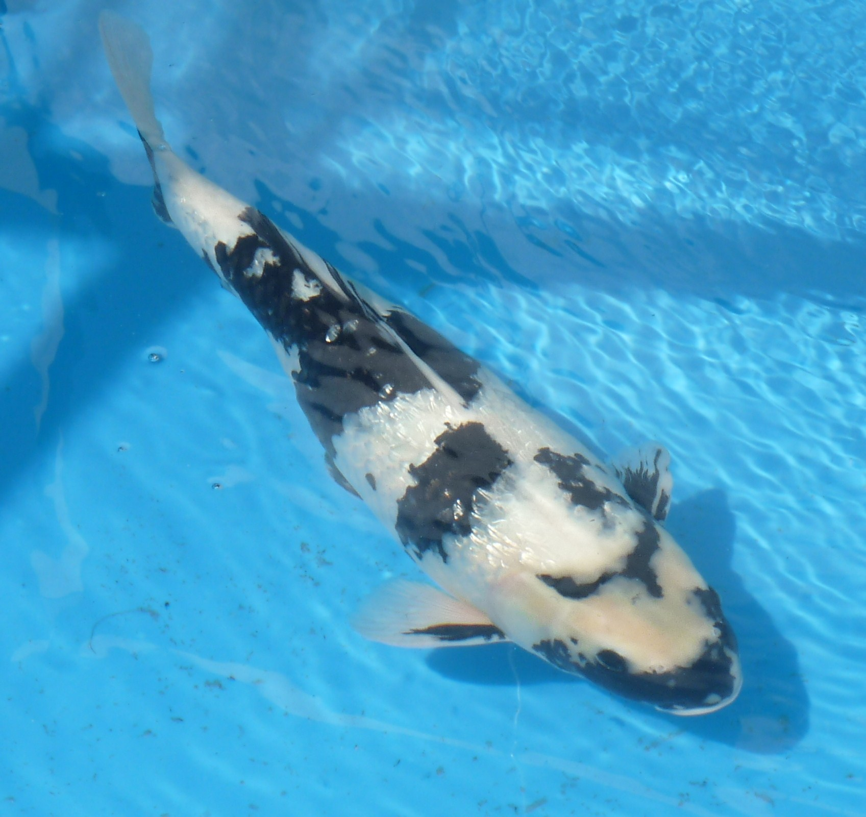 Gin Rin Shiro Utsuri (Koi)